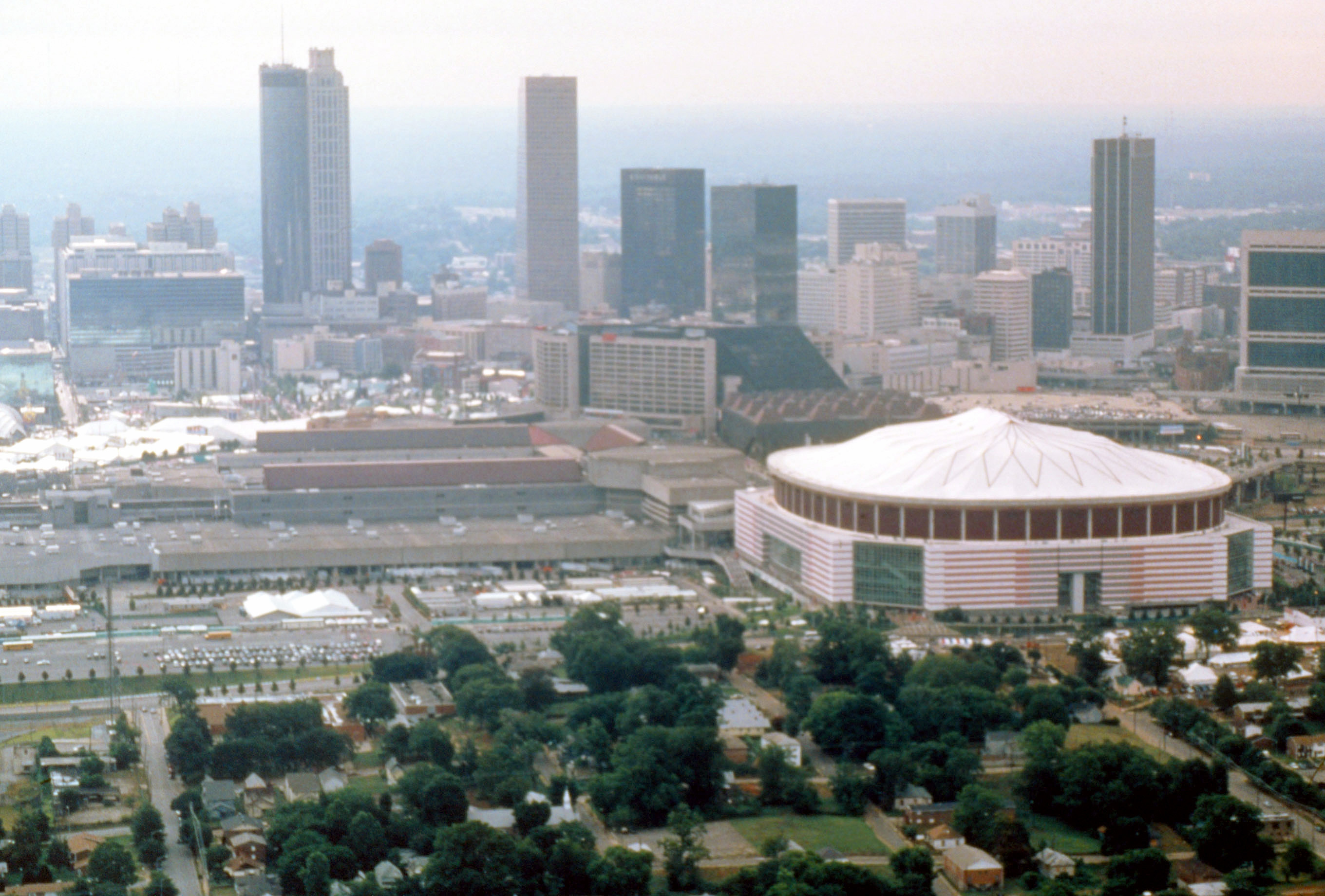 This is an aerial shot of the Atlanta skyline showing one of the several sports complexes being used during the 1996 Summer Olympic Games at Atlanta, Georgia.